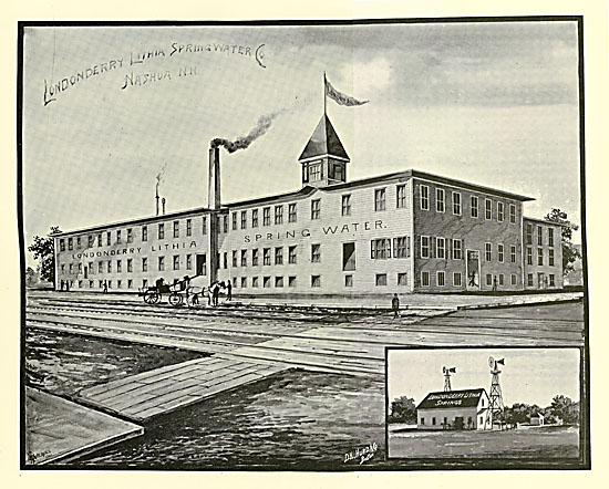 Illustration of the Londonderry Lithia bottling plant from Hurd Town & City Atlas of New Hampshire, 1892